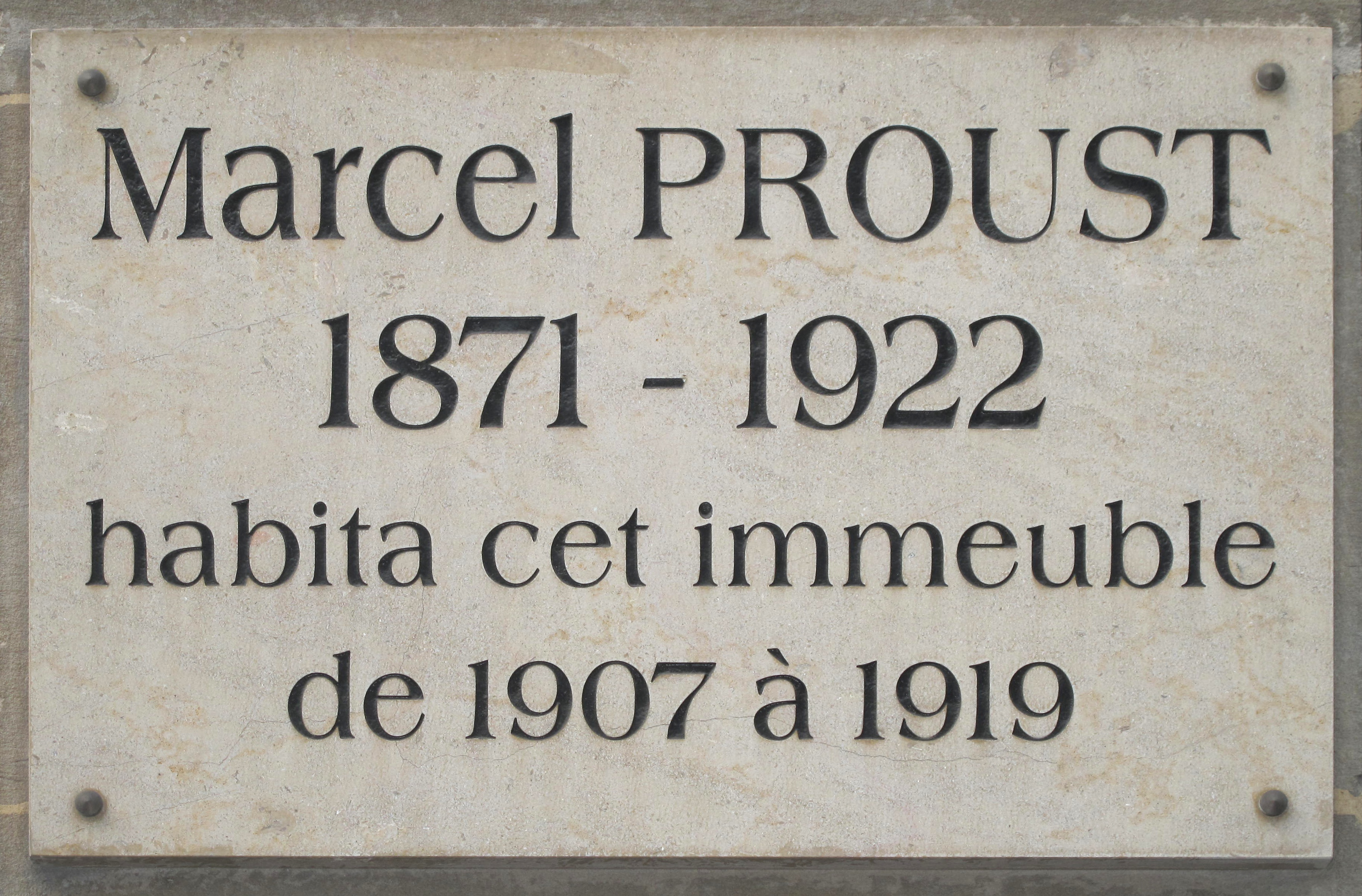 Commémorative plaque of Marcel Proust's flat : 102, Boulevard Haussmann, Paris